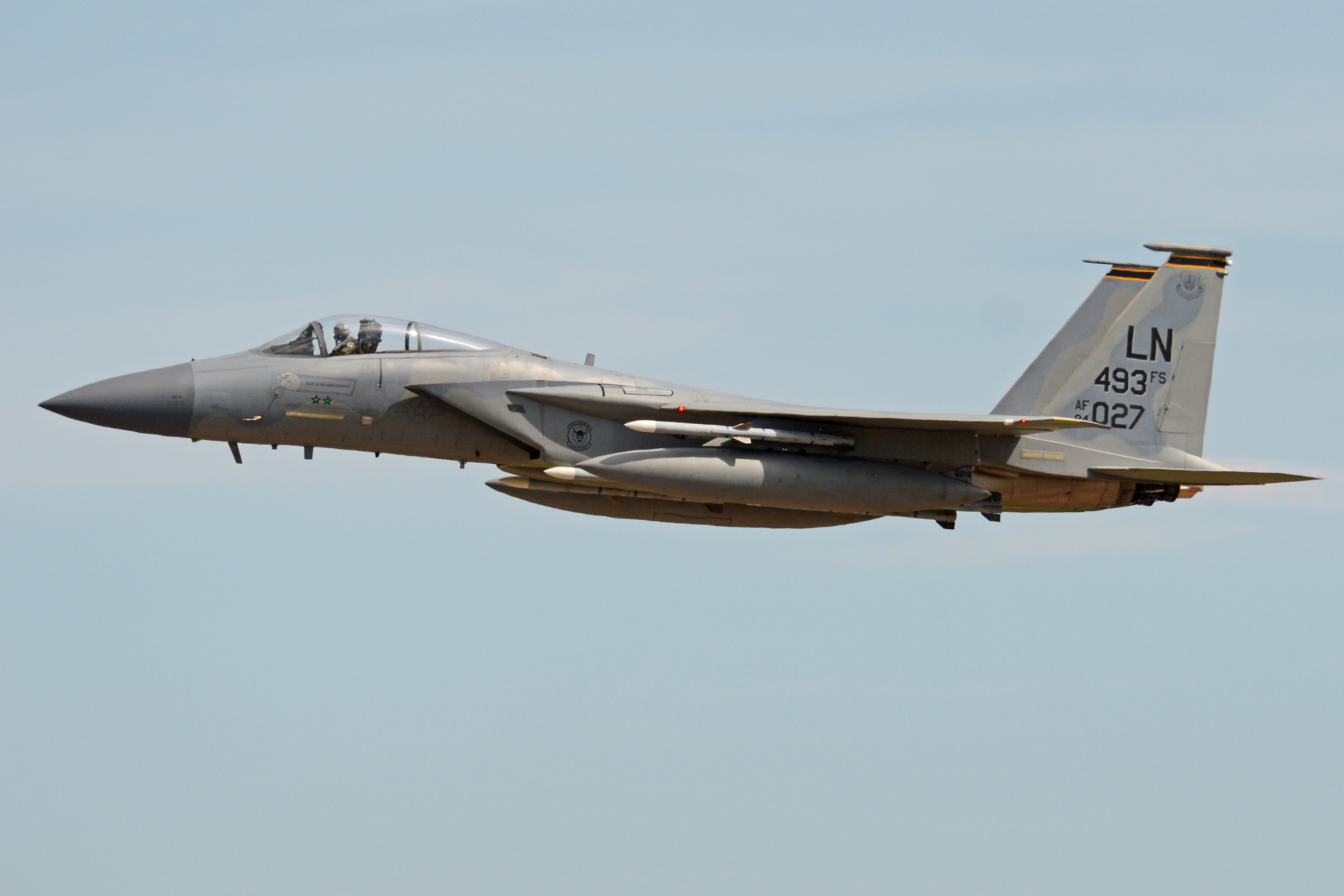 c/n 938, l/n C330. Full US military serial 84-0027. The two green stars on the nose relate to a Mirage F1 and a MiG-23 which this Eagle shot down during ‘Desert Storm’ while operated by the 53rd TFS. Now operated by the 493rd Fighter Squadron, part of the 48th Fighter Wing, United States Air Force, based at RAF Lakenheath. Seen departing after taking part in the 2017 Royal International Air Tattoo. RAF Fairford, Gloucestershire, UK. 17th July 2017